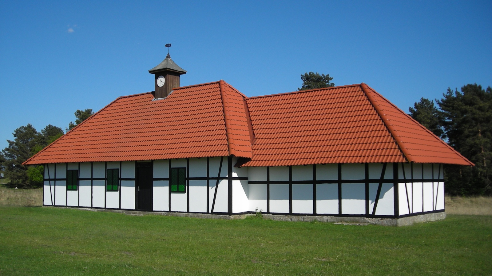 Heidebahnhof in the Senne